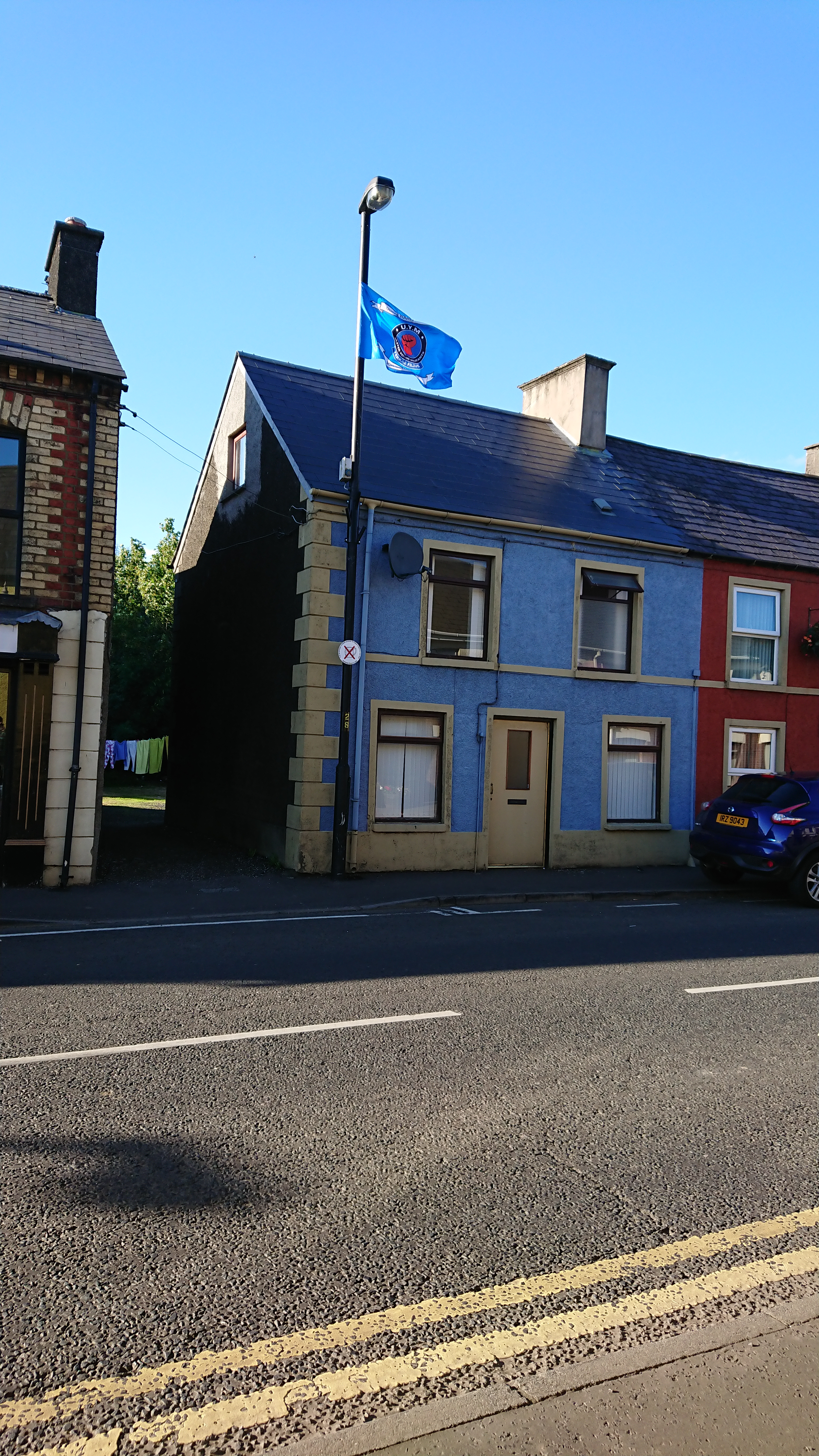 The flag of the UYM flying in Broughshane, County Antrim. The UYM is the youth wing of the illegal loyalist paramilitary group, the UDA.